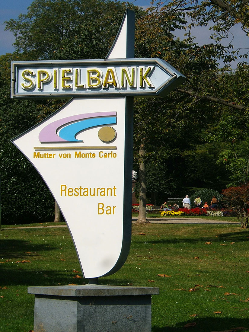 Fingerpost to the casino Bad Homburg vor der Höhe, Germany